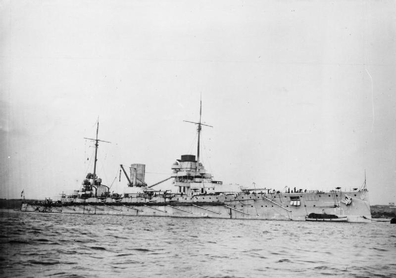 Sms Goeben German Battle Cruiser GOEBEN, 1914.